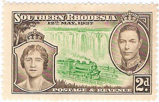 Southern Rhodesia Stamp 1937